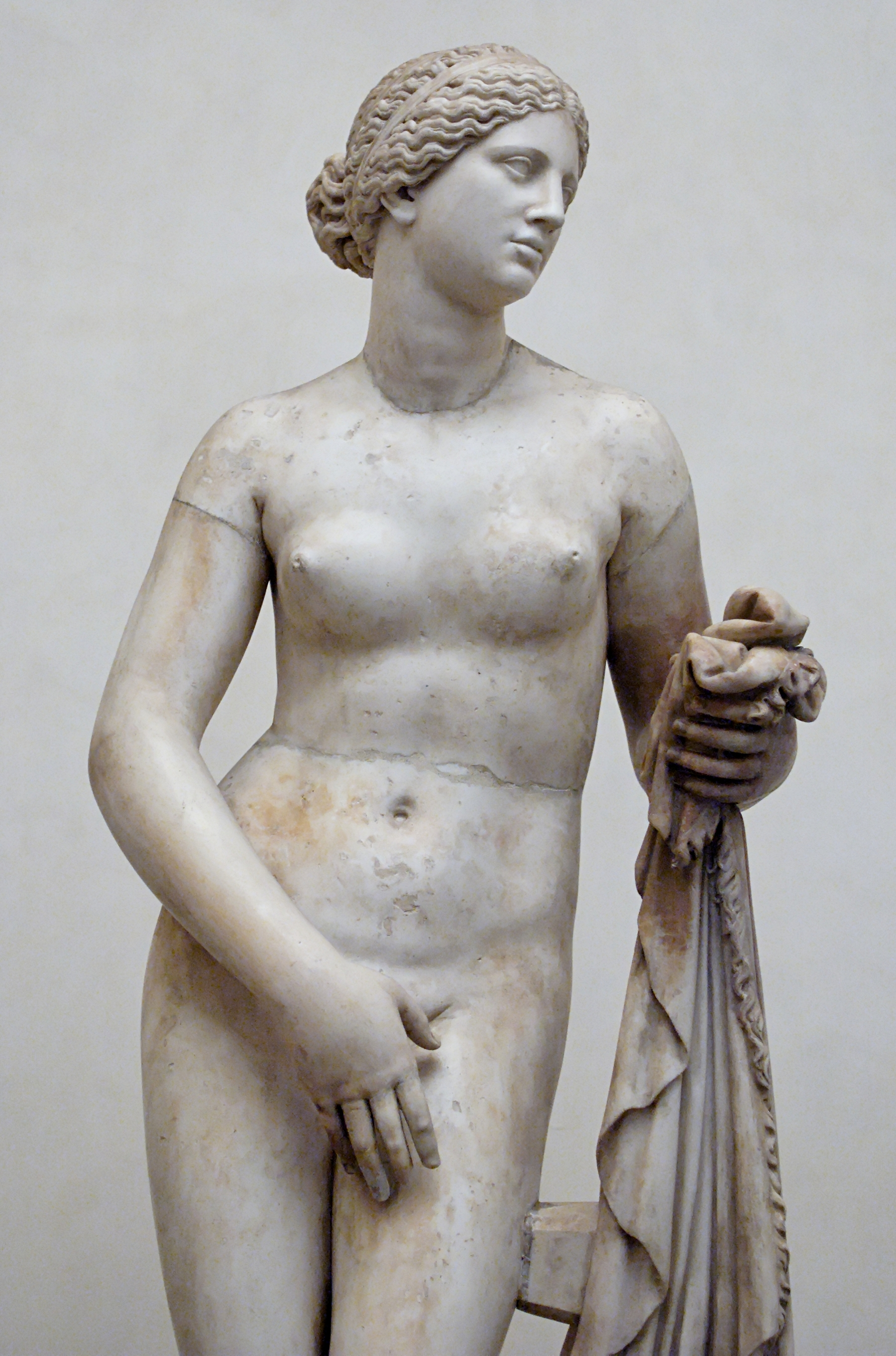 Cnidus Aphrodite. Marble, Roman copy after a Greek original of the 4th century. Marble; original elements: torso and thighs; restored elements: head, arms, legs and support (drapery and jug).